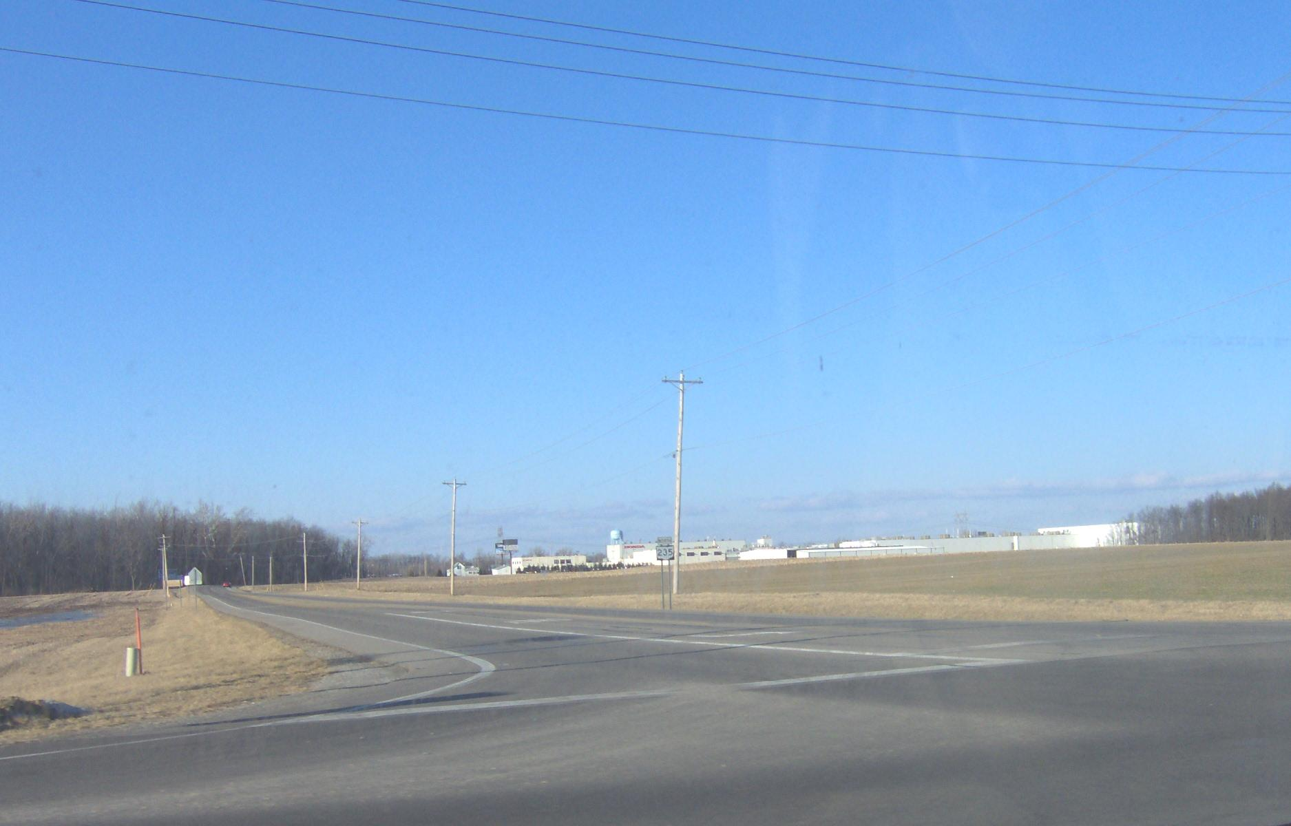 View of Washington Township, Logan County, Ohio, looking north along State Route 235 from State Route 274, with Honda Transmission Factory in background.